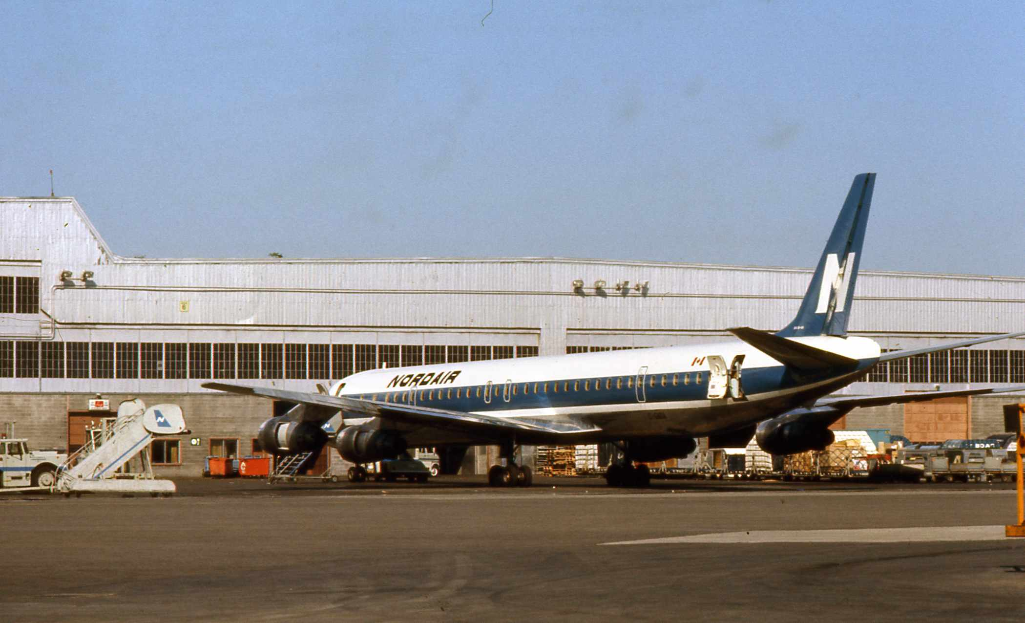 Nordair Douglas DC-8 at Montreal base in 1975.